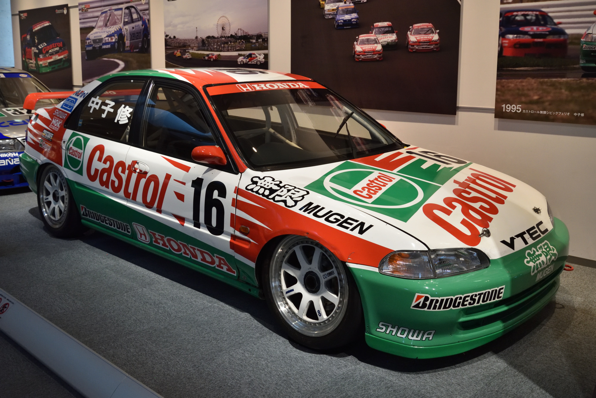 HONDA Castrol MUGEN CIVIC (Osamu Naoki, JTCC 1995)